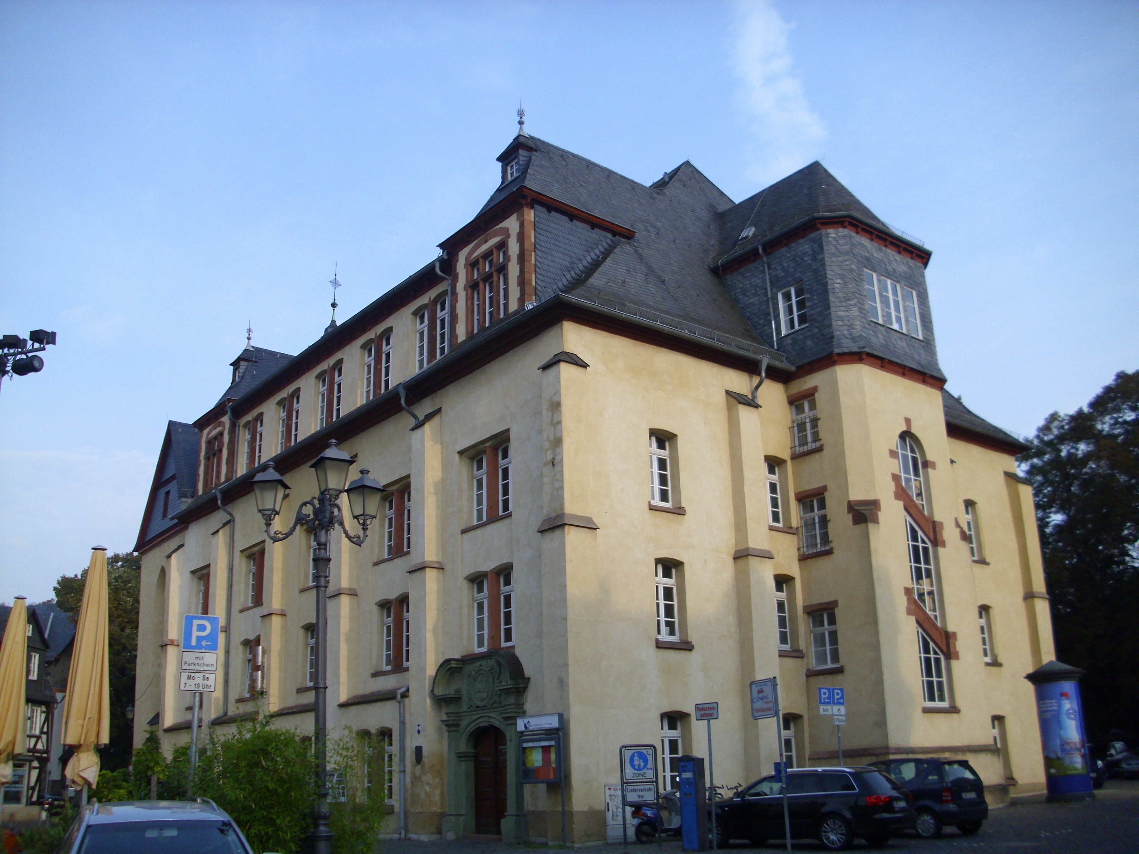 Schillerplatz 8, Wetzlar, Germany